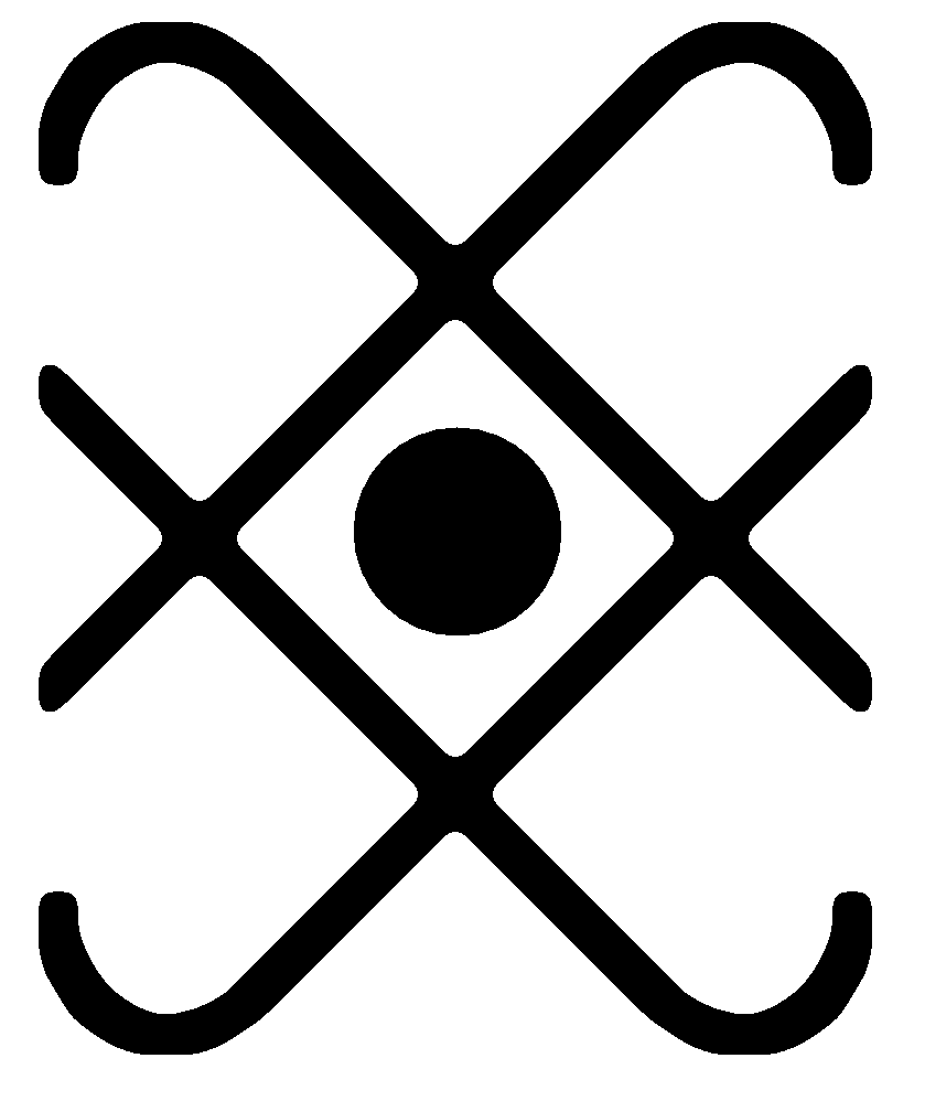 The heraldic sign of Jurij Golimin (Jurgis Galminas), a XV century Samogitian nobleman. Based on an image in: Acta Unji Polska z Litwą, Krakow, 1932, s. 100.